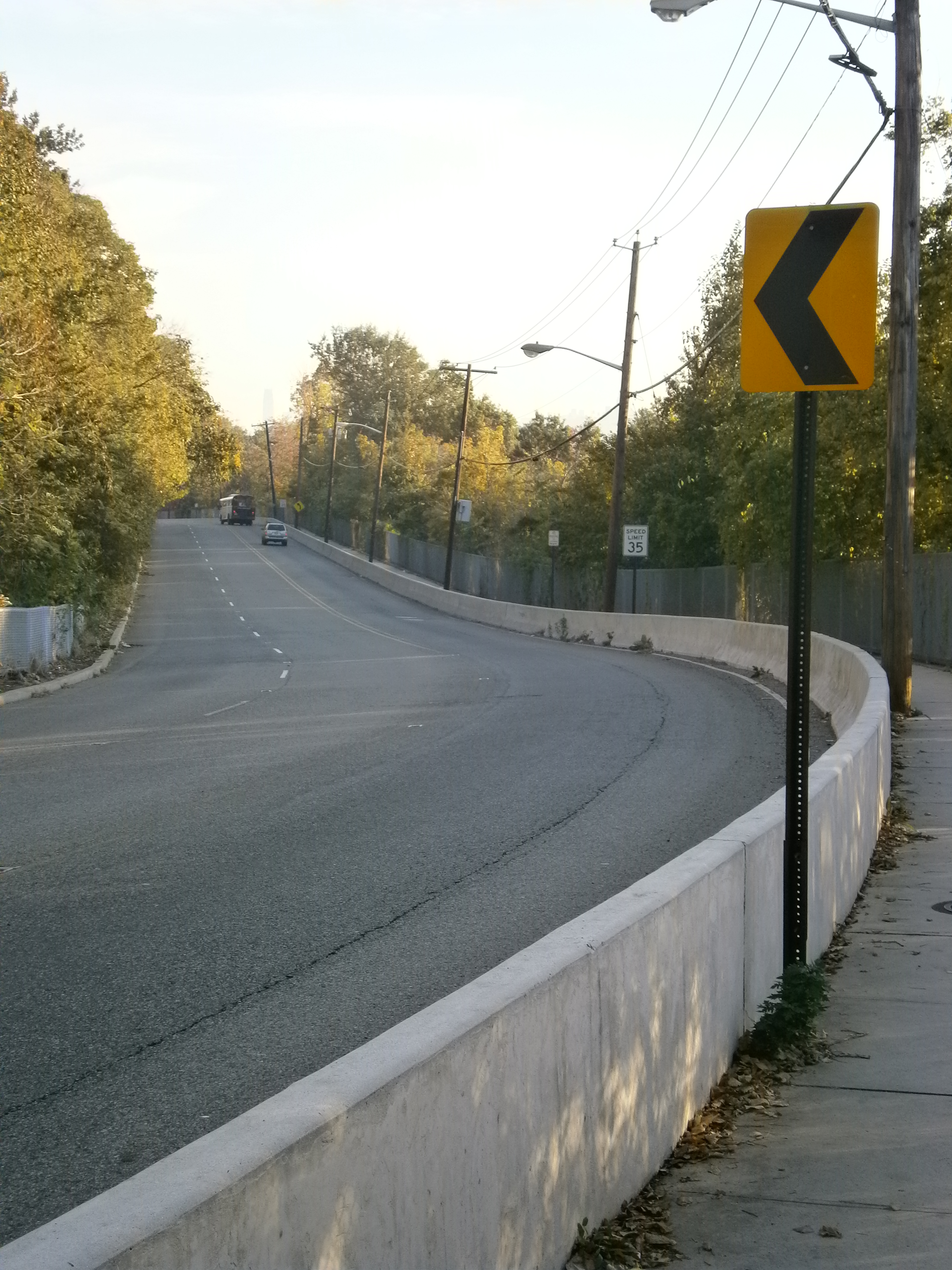 Anthony M. DeFino Way (formerly Hillside Boulevard East) to River Road--Hudson Palisades-WNY